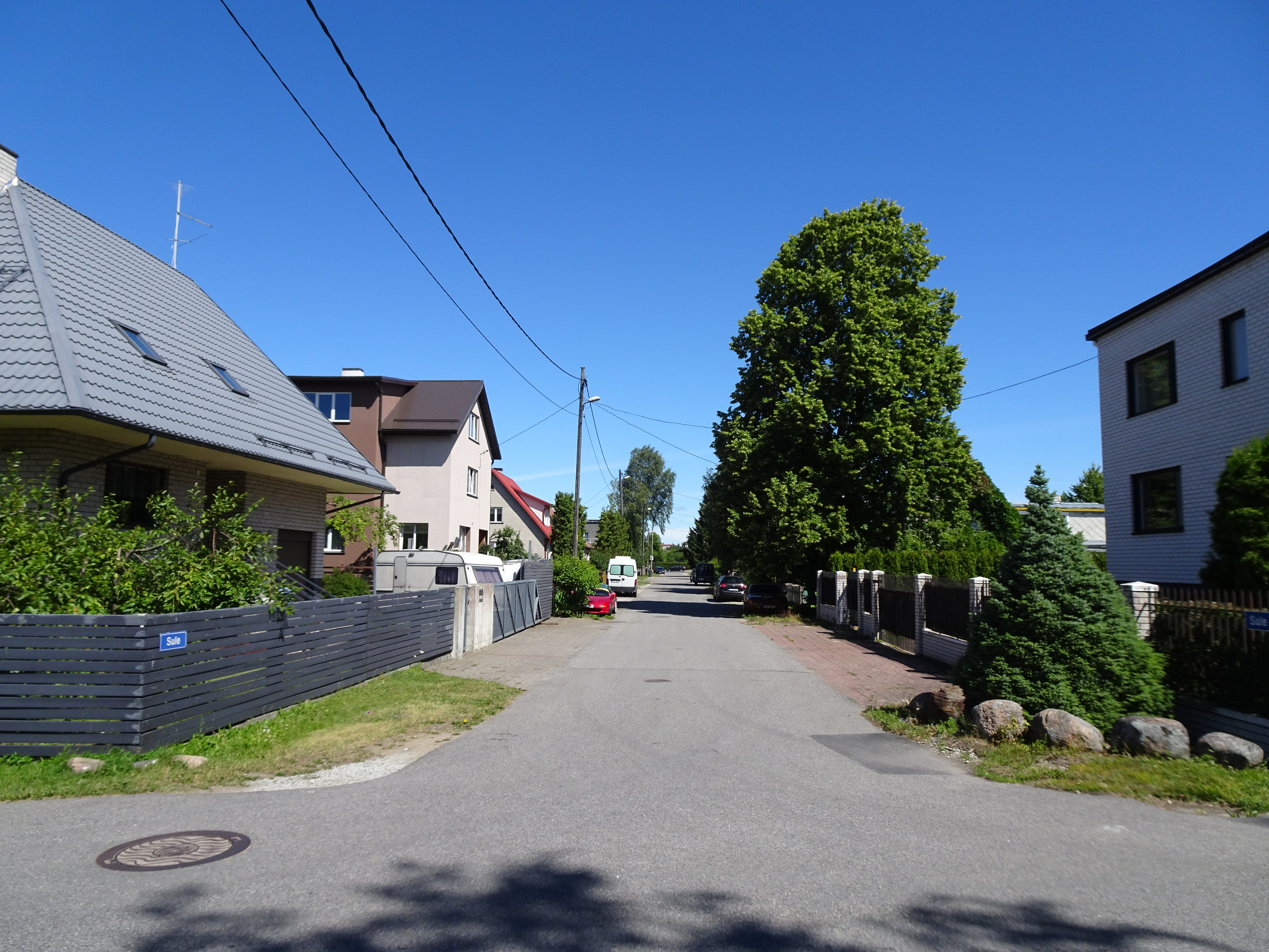 Sule Street in Tallinn, Estonia